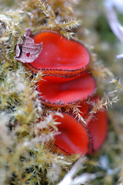 Scutellinia spec. from Commanster, Belgium. The determination of the species shown in this picture has been verified.